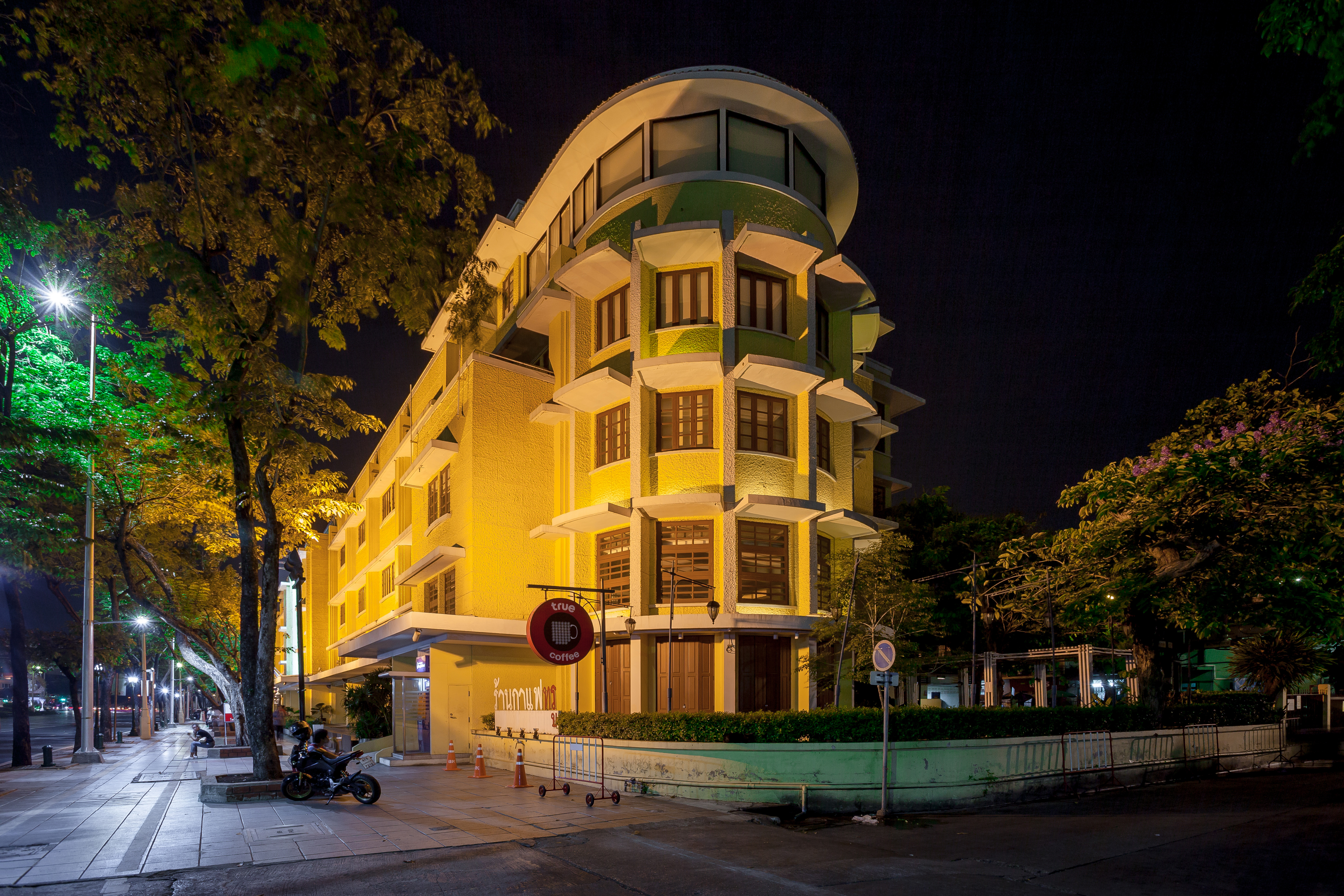 Nitas Rattanakosin or Rattanakosin Exhibition Hall designed by Mew Abhaiwongse (หมิว (จิตรเสน) อภัยวงศ์) at Ratchadamnoen Avenue, BKK.